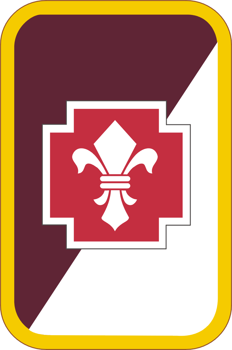 62nd Medical Brigade Shoulder Sleeve Insignia